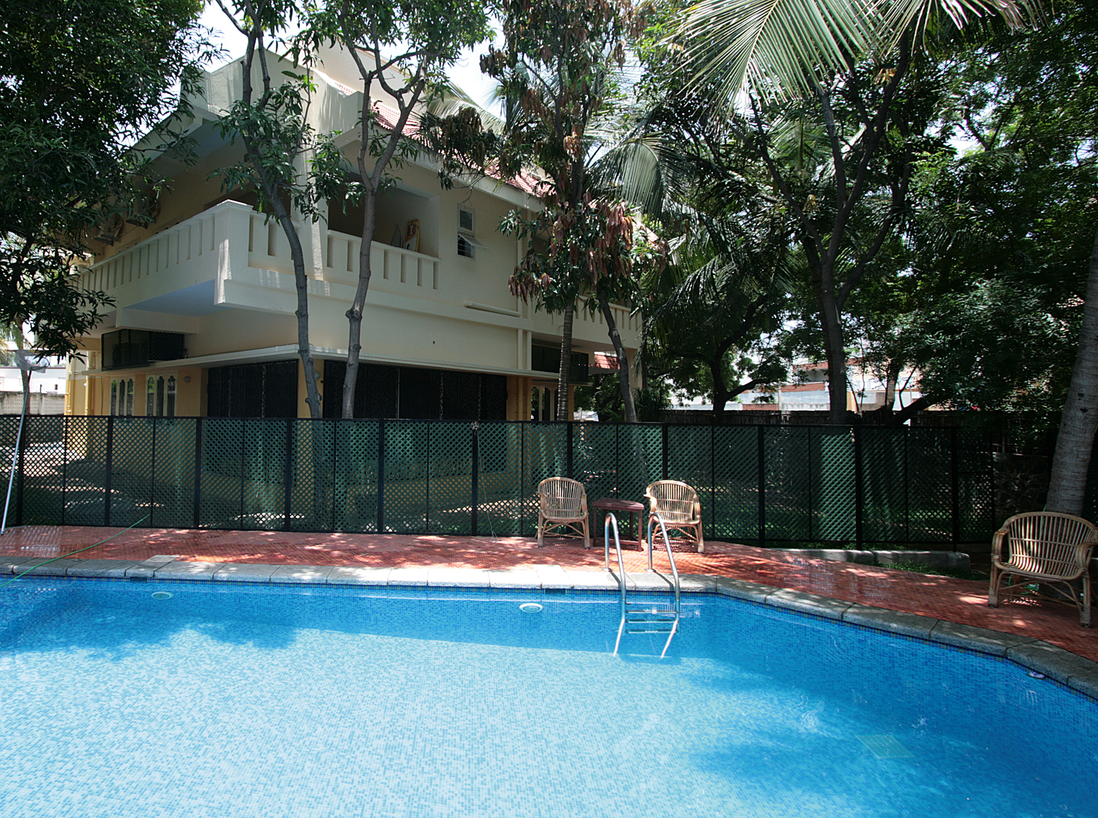 Building of the German International School Chennai, new campus in Palavakkam, including a large garden and swimming pool